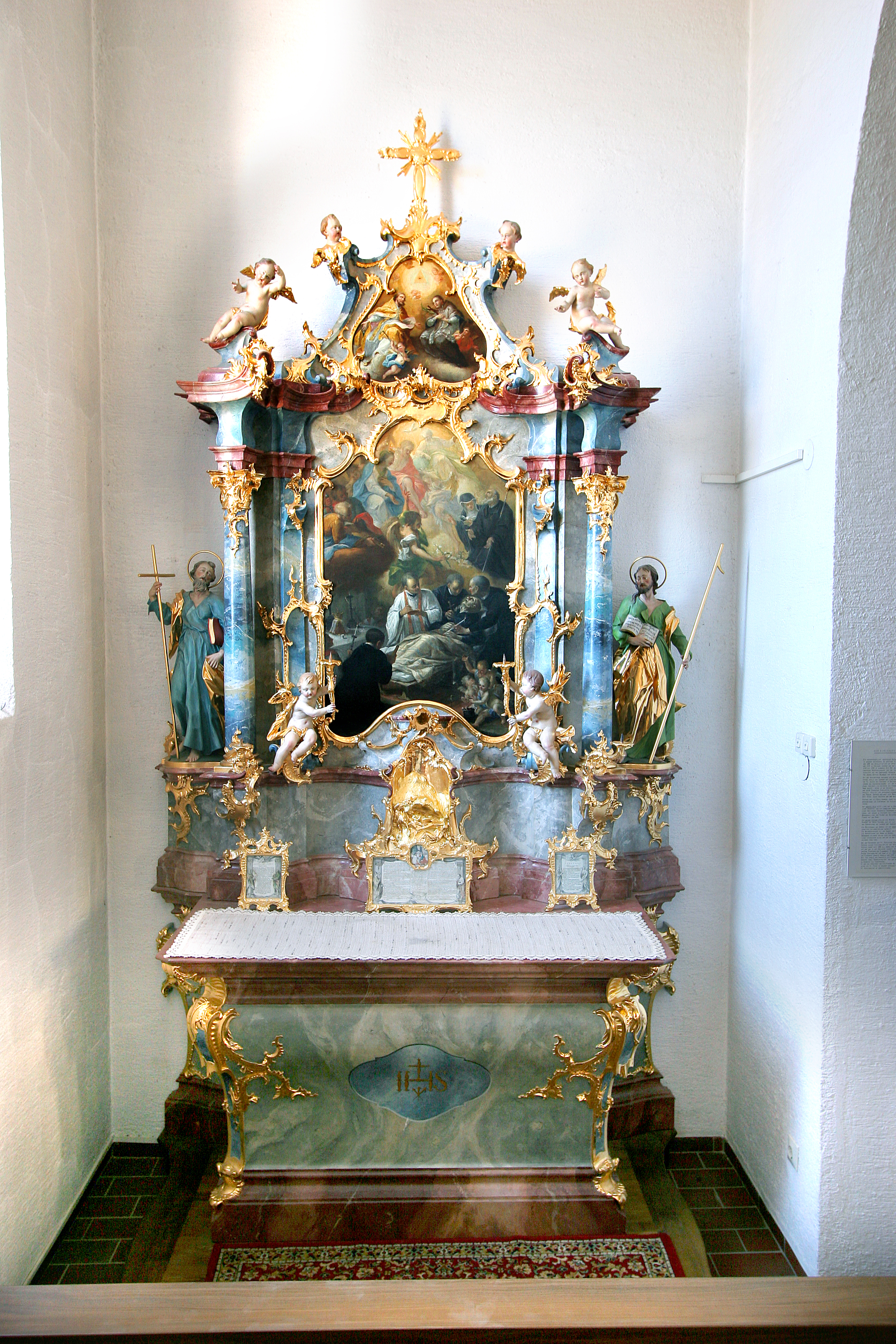 Altar in St. Benedikt, parish church of Eisenbach, Black Forest, Germans